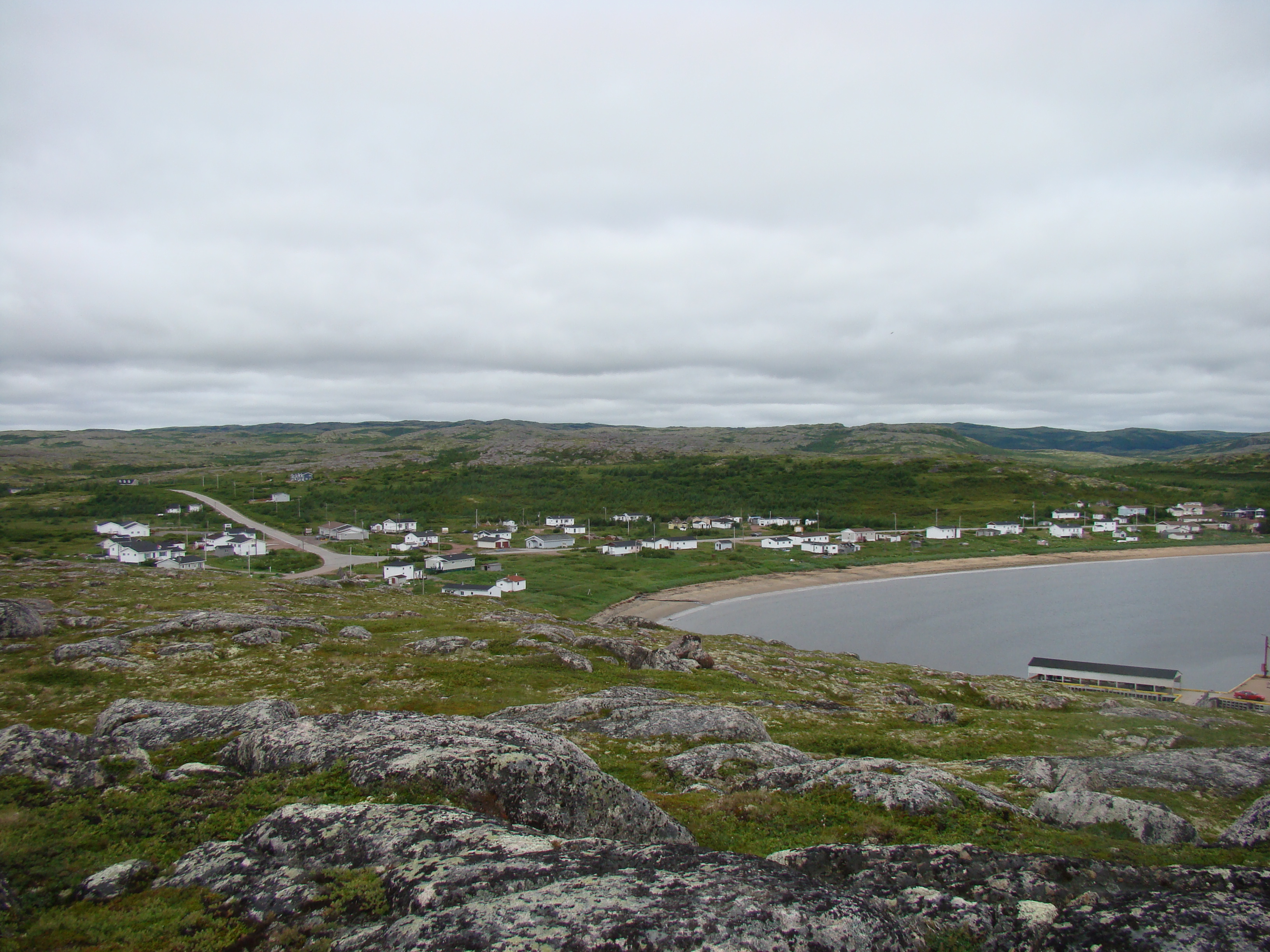 Pinware, NL. Last know census: 2011 Population: 107